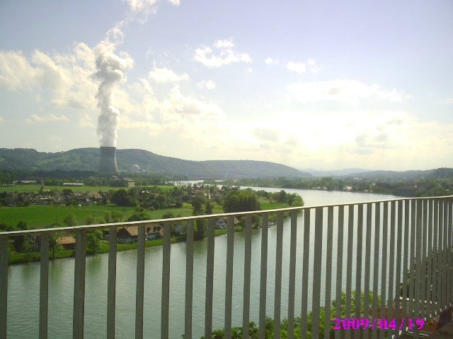 The Rhine Valley in city of Waldshut, direction Dogern